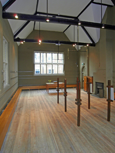 The Old Schoolroom at Queen Street School. For a picture of Queen Street School see 1143366. This room is restored so as to show how it would have appeared when Samuel Wilderspin taught here from 1846-48.